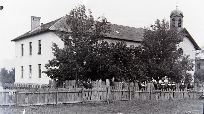 The Church of the Sacred Heart of Jesus and the Convent of the Sisters of the Maids of the Little Jesus on the Mladice